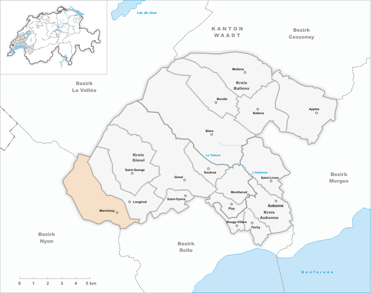 Municipality Marchissy